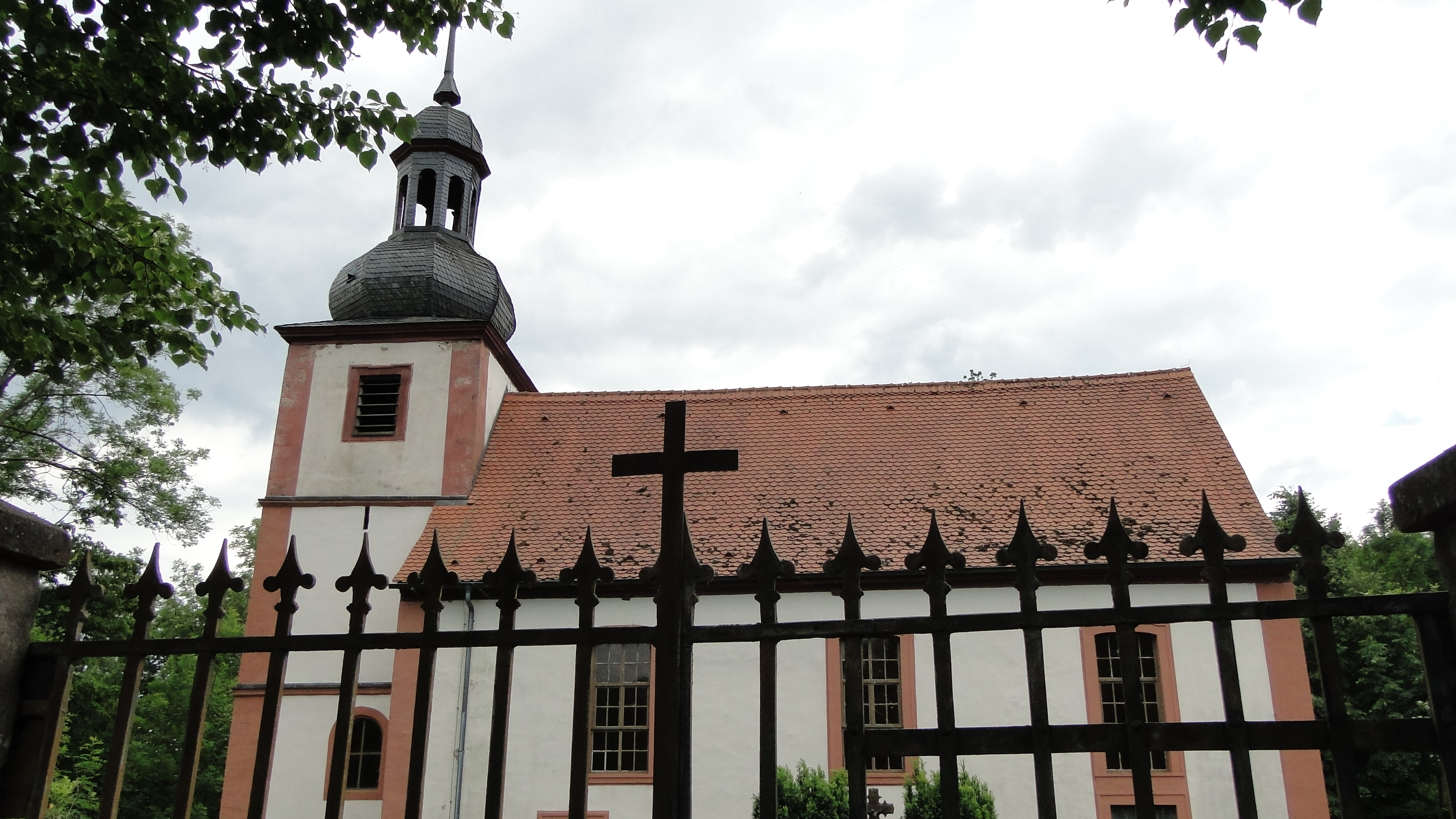 St. Michael chapel in the cemetery of Neustadt am Main, Germany. Built in the 13th century. Altered in 1729-33.